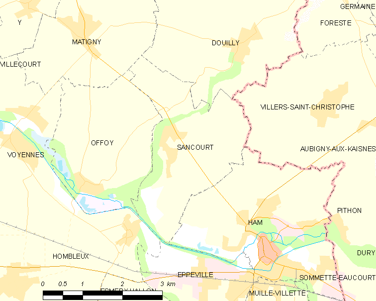 Map of French municipality Sancourt